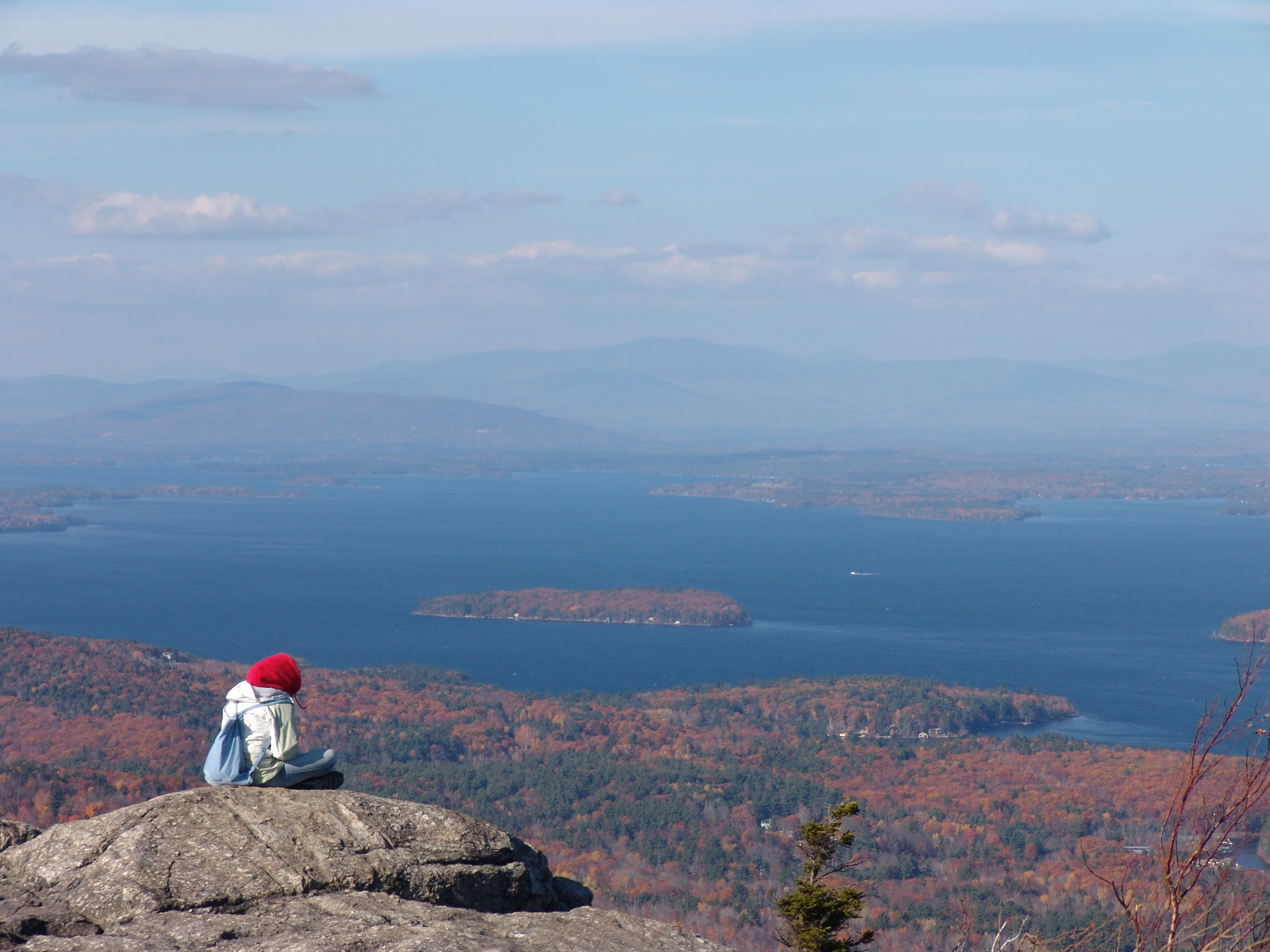 Lake Winnipesaukee, view from top of Mount Major; Photo taken by User:Ipsingh on Nov. 05, 2007. Source: Taken by User:IP_Singh 2007_11_04_Lake_Winnipesaukee_From_Mt_Major_Summit.jpg